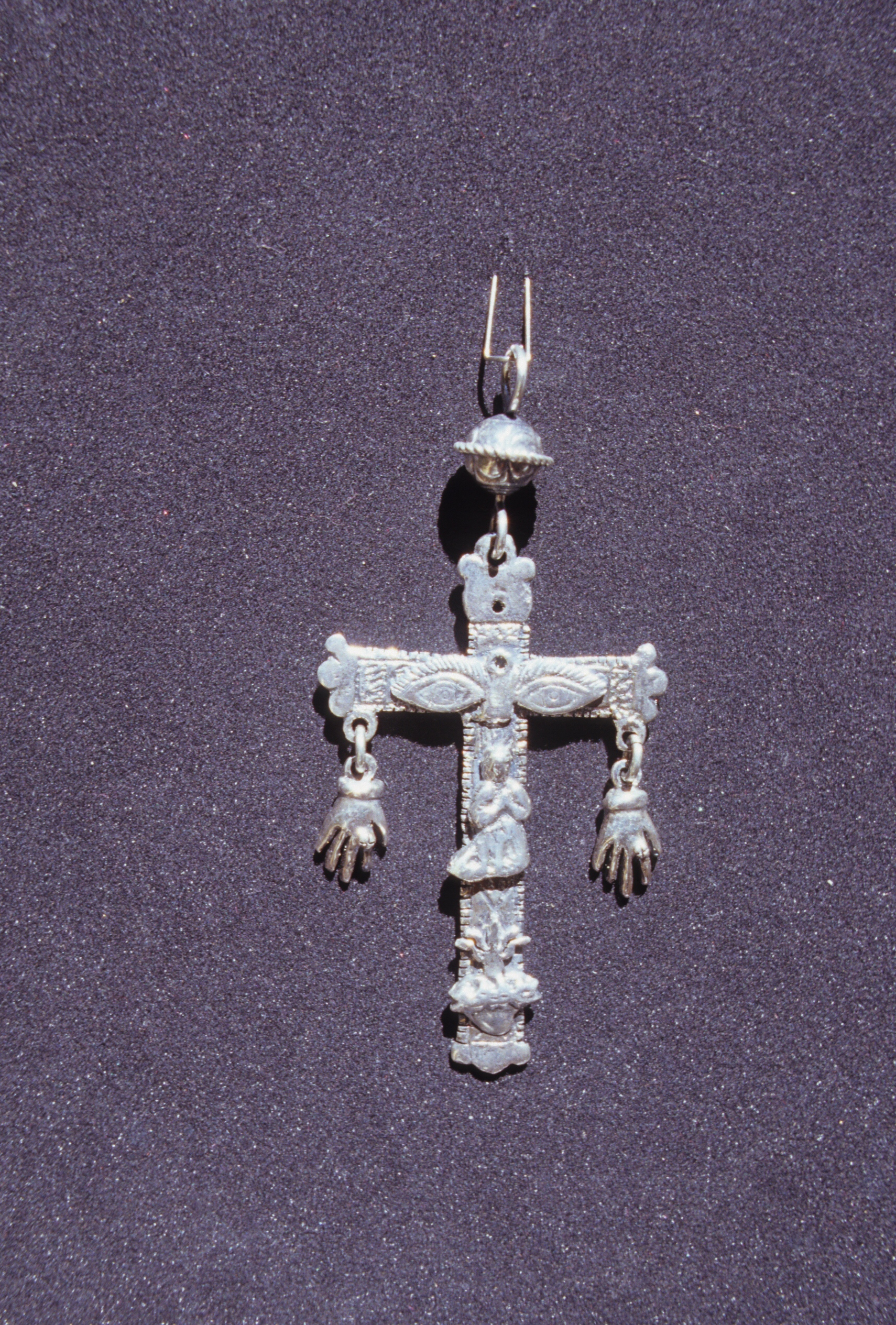 Silver Yalalag style cross pendant by Cesar Rodriguez Zarate of Oaxaca